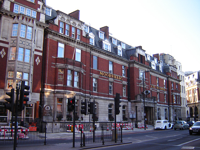 Moorfields Eye Hospital, City Road, Islington. 28 January 2006. Photographer: Fin Fahey